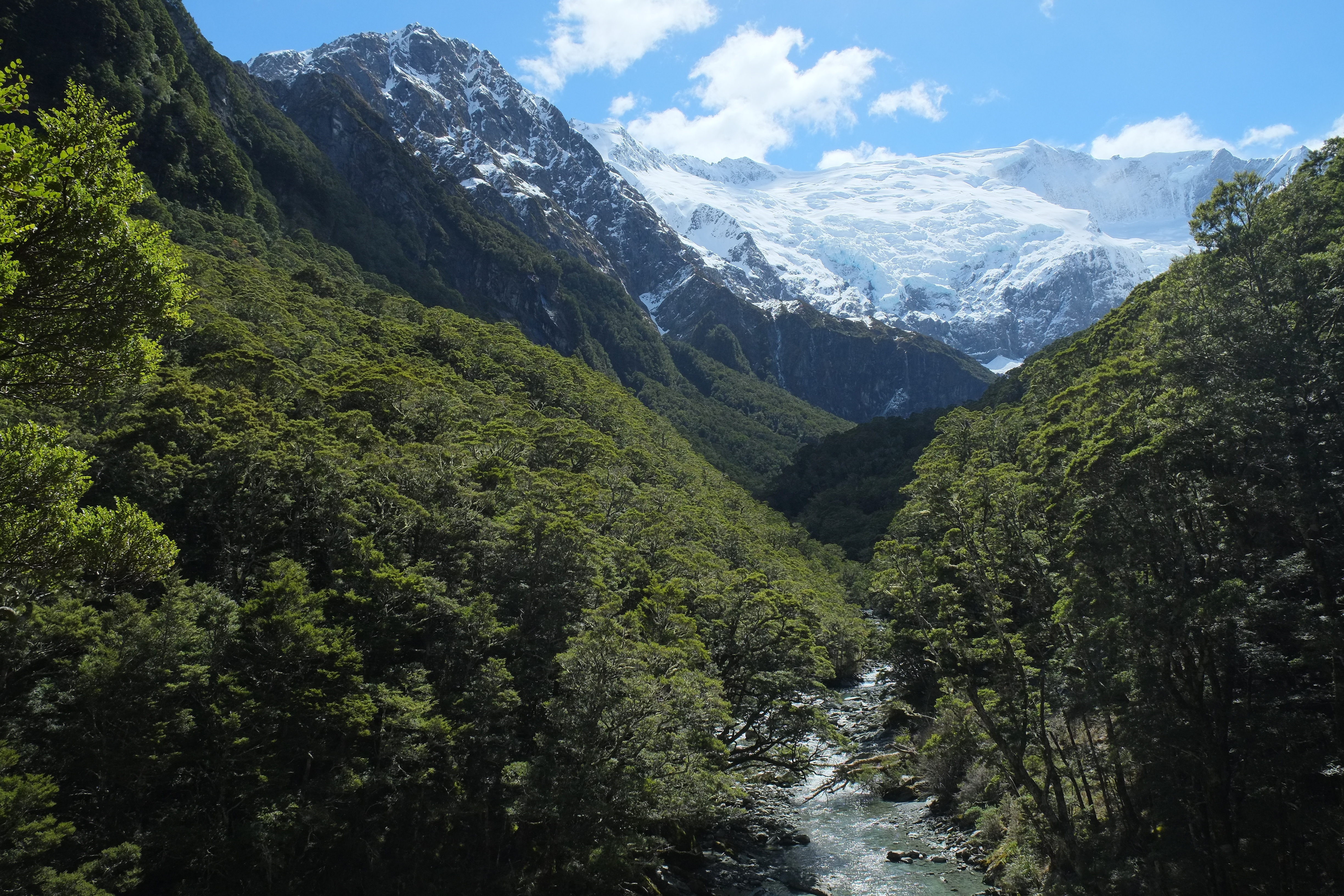 Beech forest in Rob Roy Valley towards Rob Roy Glacier